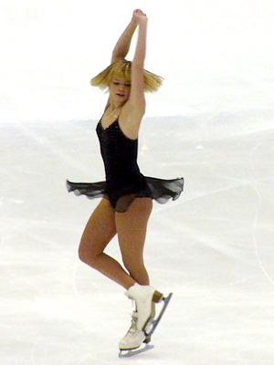 Elena Sokolova at the 2004 NHK Trophy